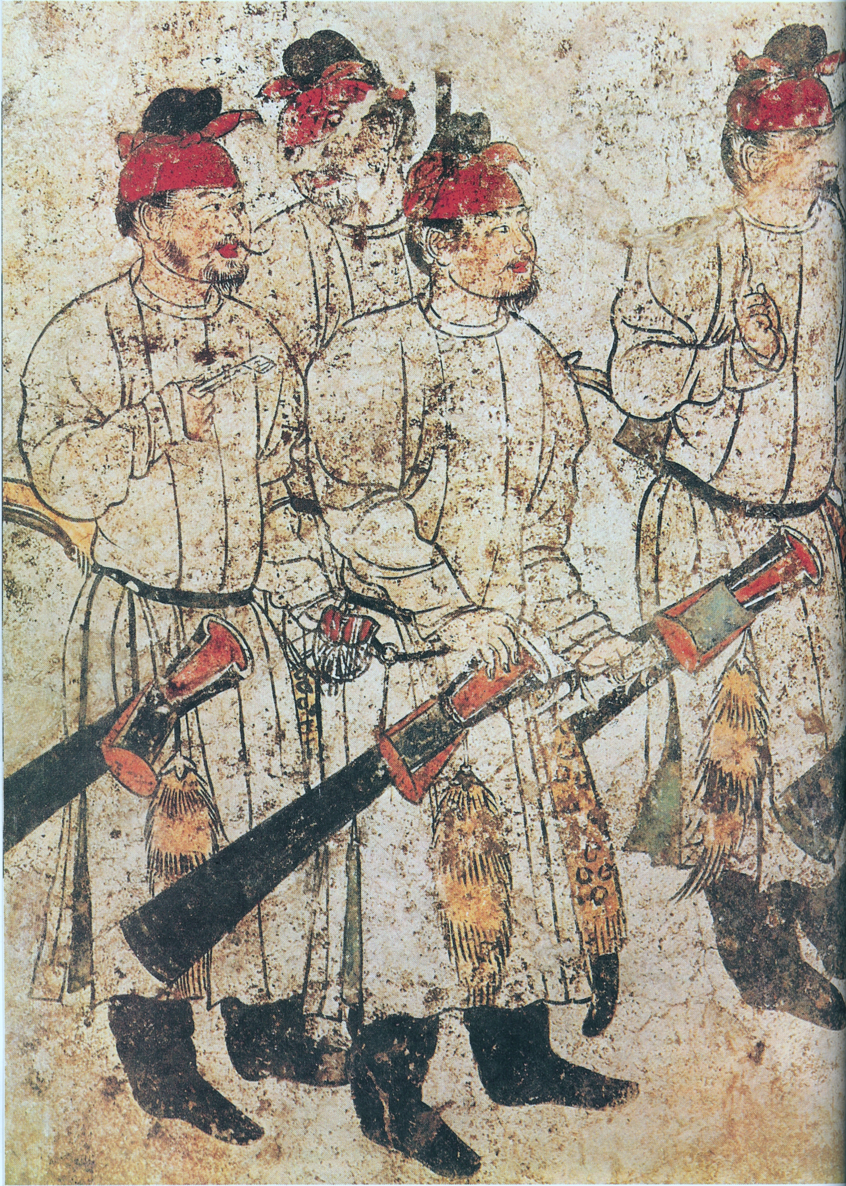 Figures in a cortege, from a wall mural in the Tang Dynasty Chinese tomb of Li Xian, also known as Crown Prince Zhanghuai (653–684 AD), who was not interred at the Qianling Mausoleum in Shaanxi until 706 AD, when he (alongside other victims of Empress Wu's reign) were exonerated by Emperor Zhongzong. The attendant figures of his tomb seen here measure roughly 1.6 m (63 in) in height.